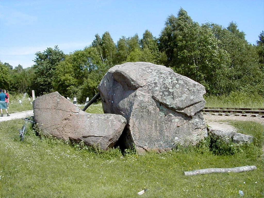 Kapsēde stone